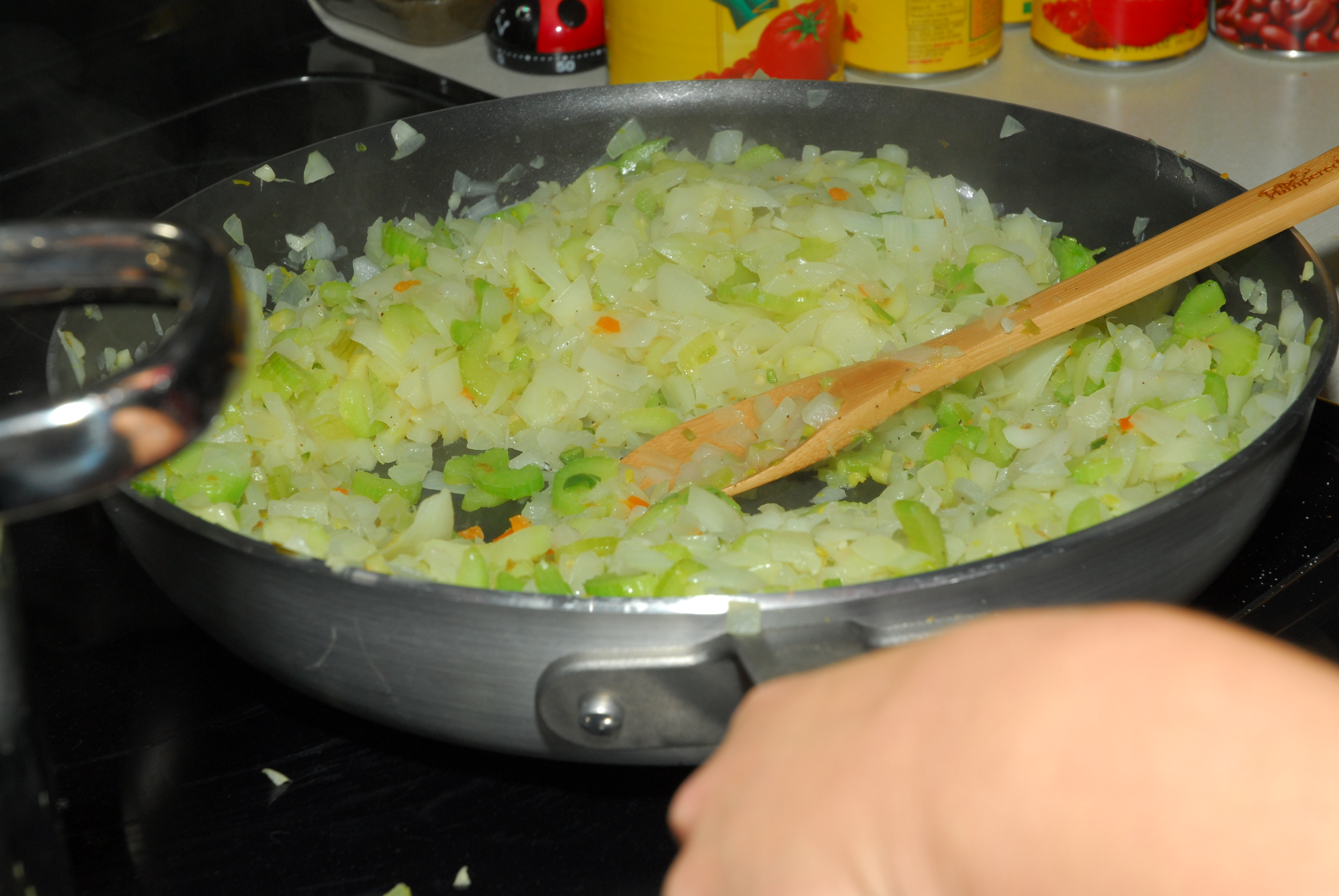 The individual components of chili look so much more appetizing than the final product.